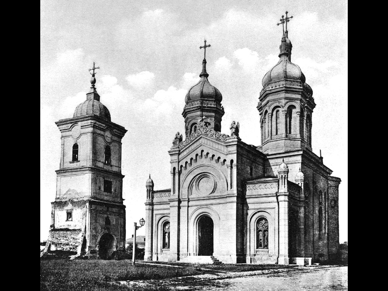 photograph of Bucharest Radu Vodă Church